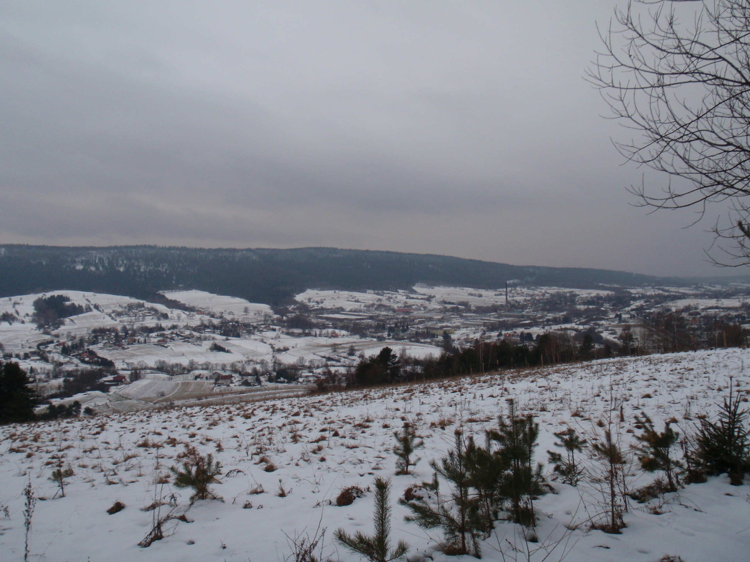 View from Gromadzyń mountain on industrial part of Ustrzyki Dolne, Ustjanowa Górna village (right) and Żuków mountain range